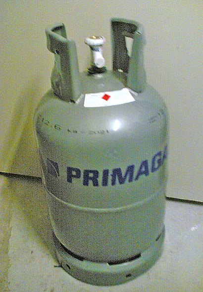 Propane cylinder as commercially available